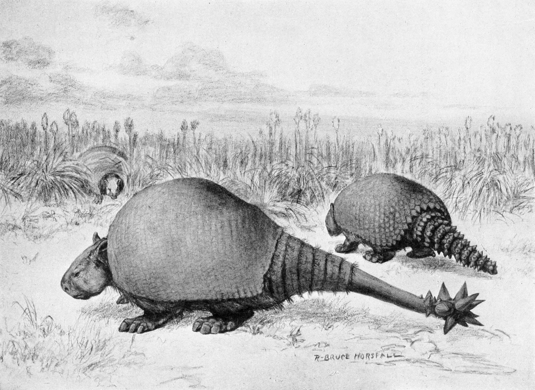 Doedicurus clavicaudatus and Glyptodon clavipes.